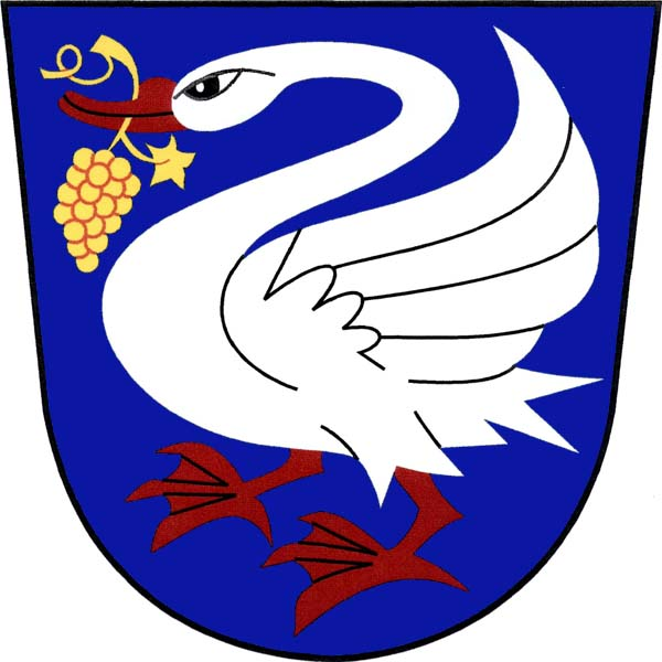 Municipal coat of arms of Labuty village, Hodonín District, Czech Republic.